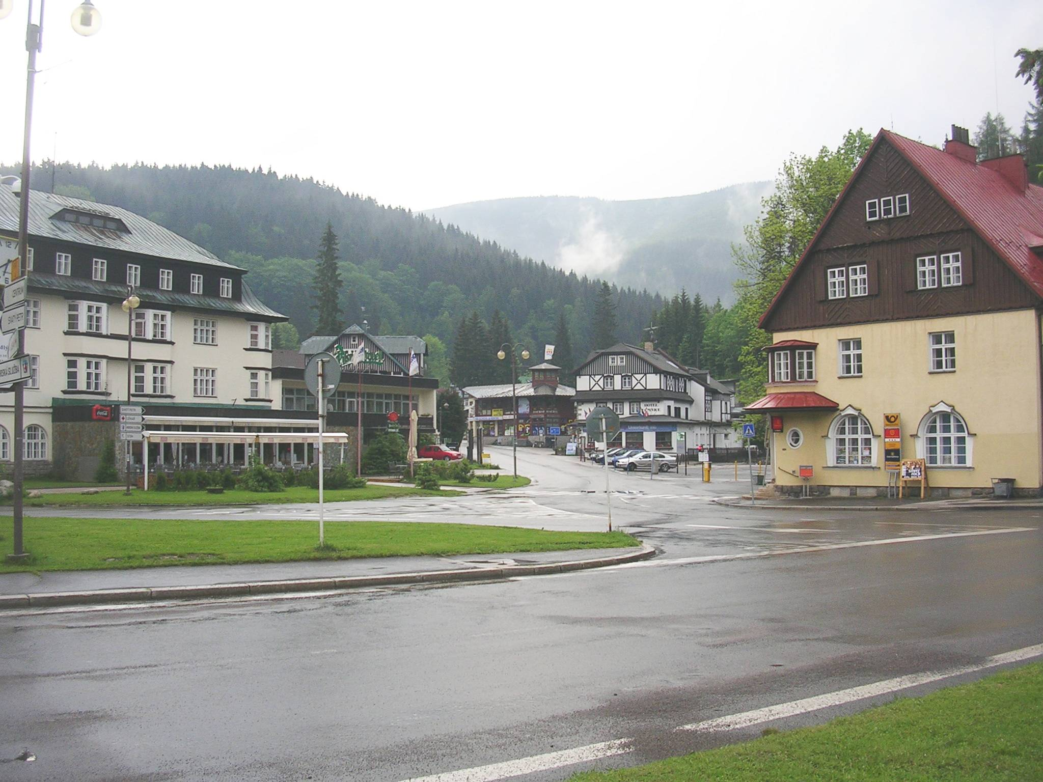 Špindlerův Mlýn.